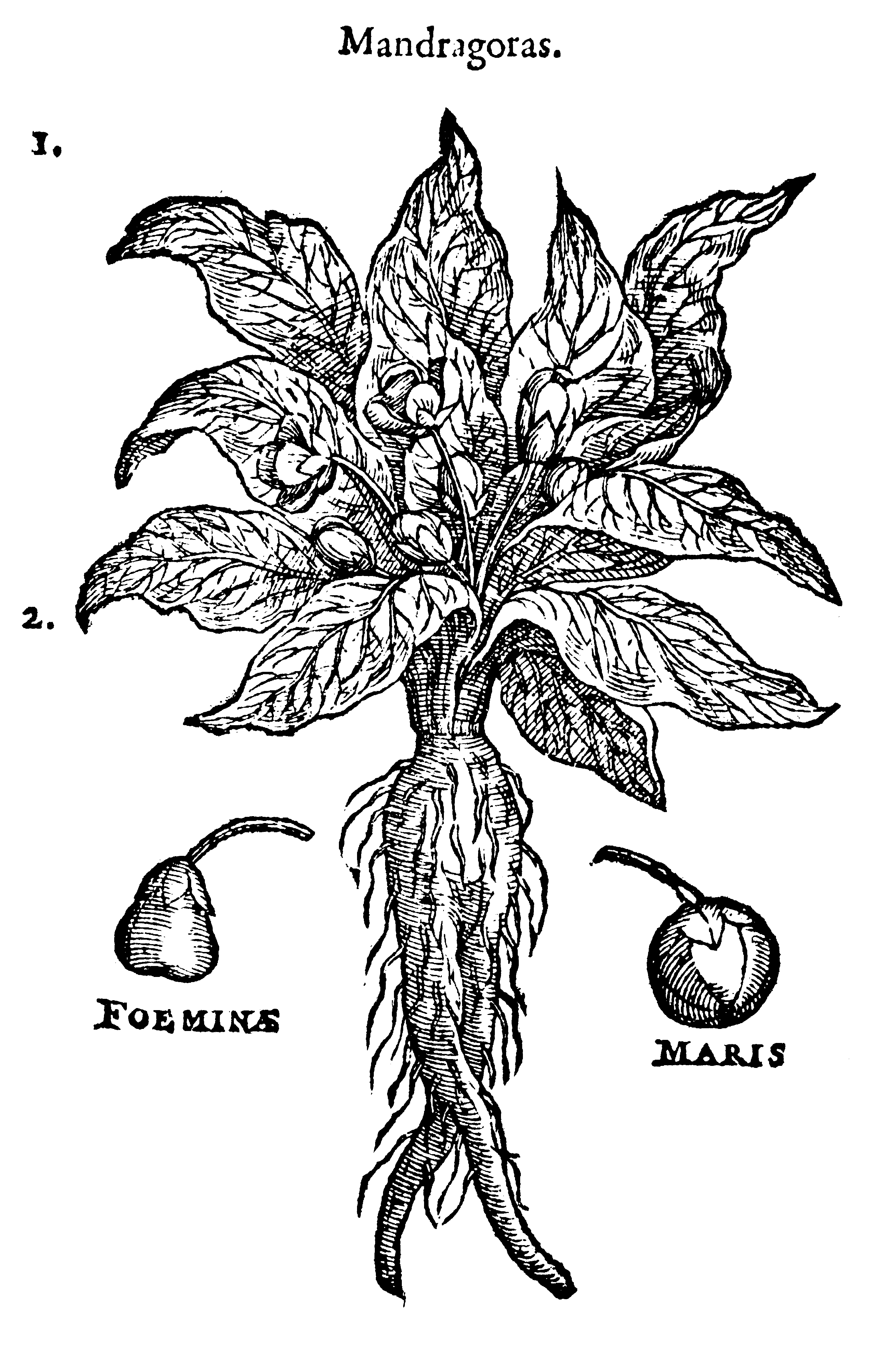 Mandragoras, page 454